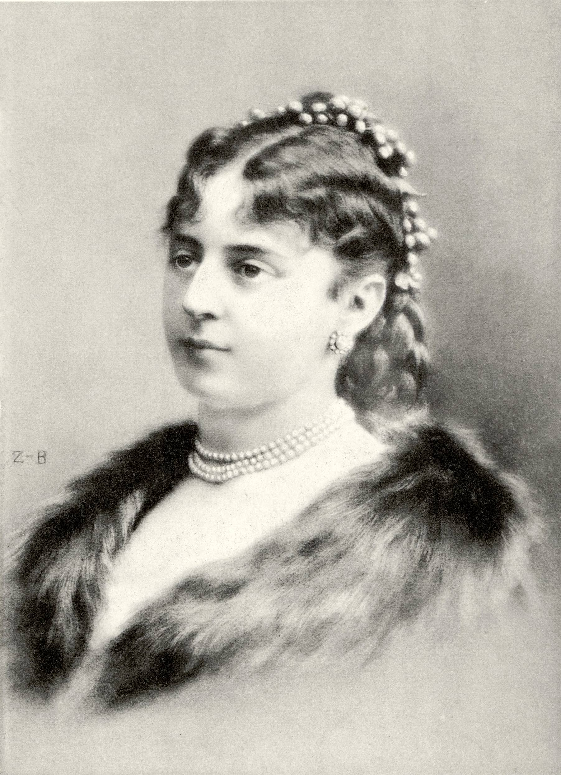 Belgian opera singer Marie Heilbron (1851-1886) after a portrait by Fritz Zuber-Buhler (1822-1896).